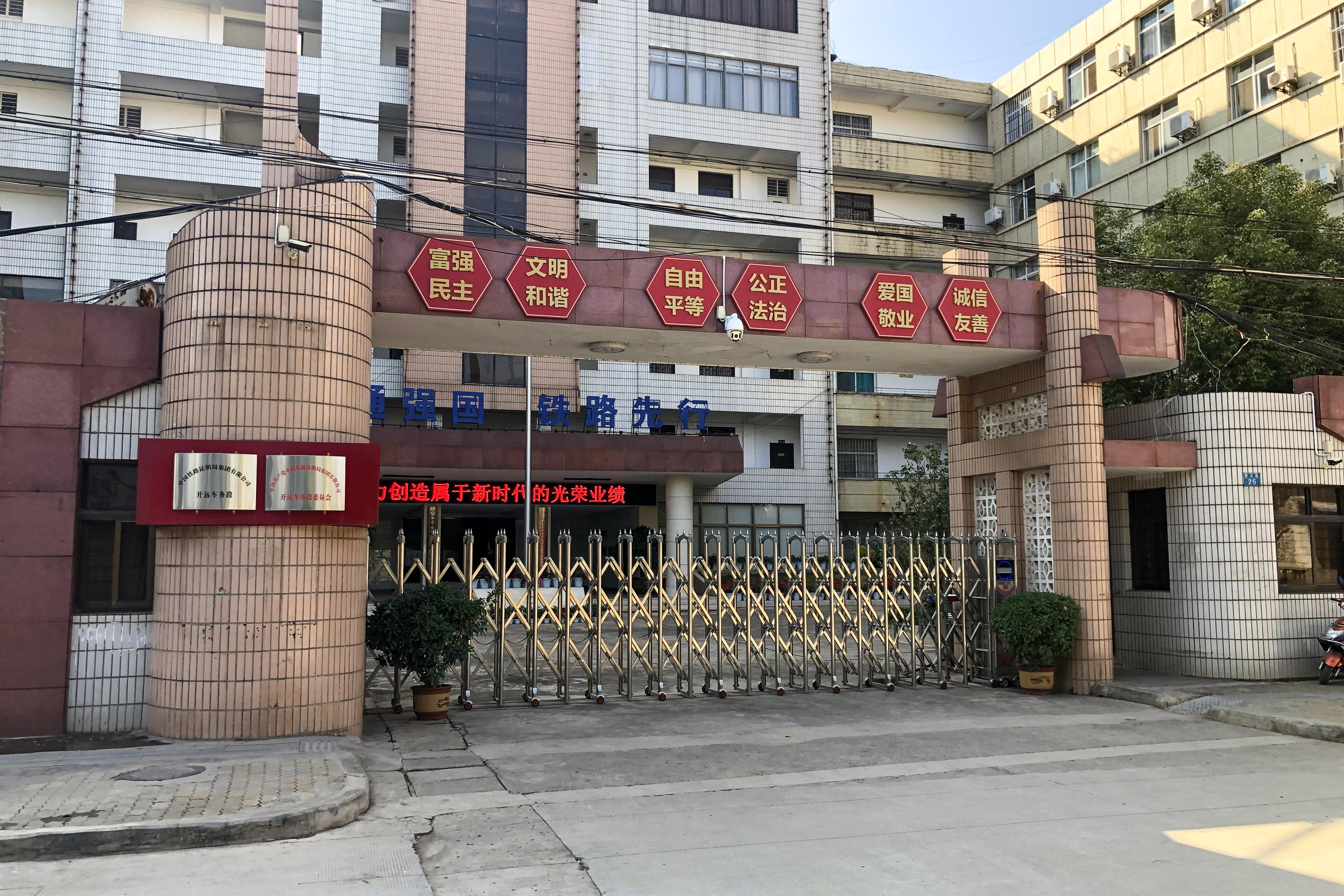 No official English name visible.